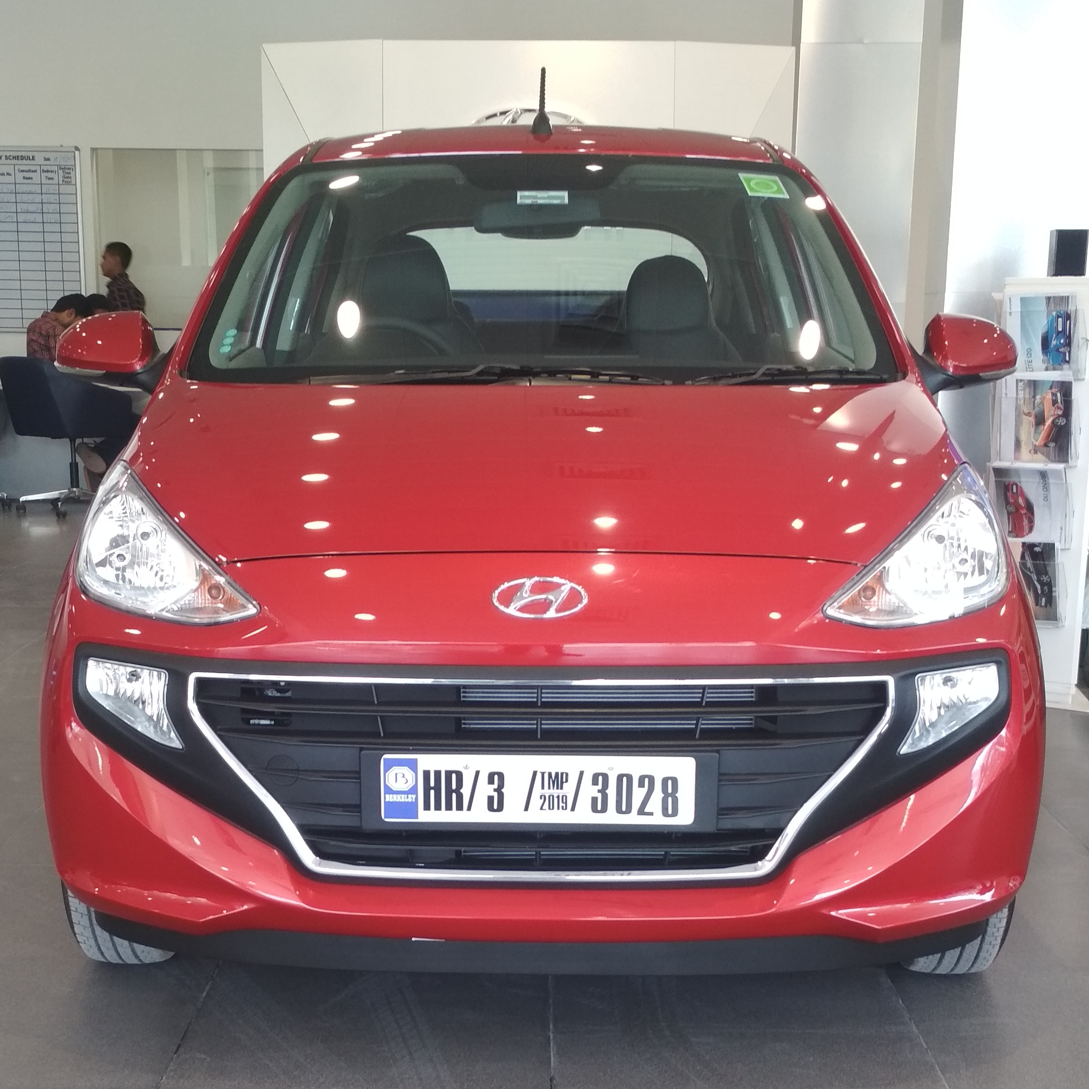 Hyundai's latest hatch back Santro 2018 (AH2) 3rd generation.